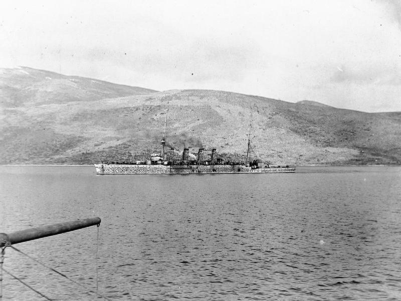 British light cruiser HMS Dublin.